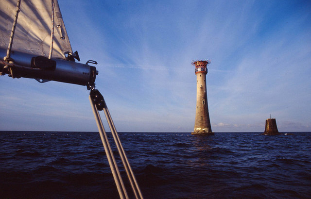 Eddystone Lighthouse Taken while sailing from Fowey to Hamble (four days). A nautical photography lecturer had said 'Always include a part of the boat's structure; it doesn't matter if it's not in focus'. He was right - it works!